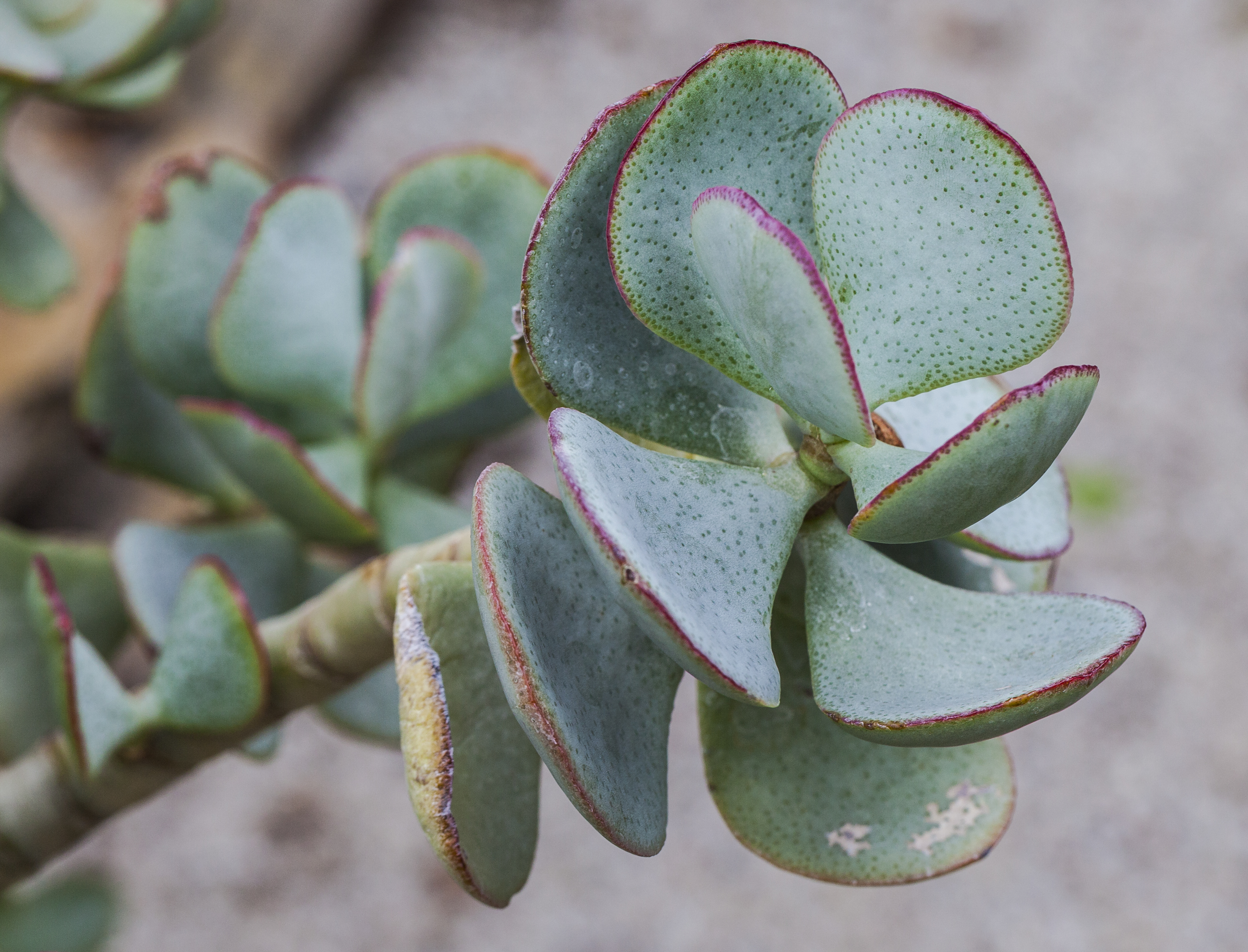 Crassula arborescens, Munich Botanical Garden, Germany